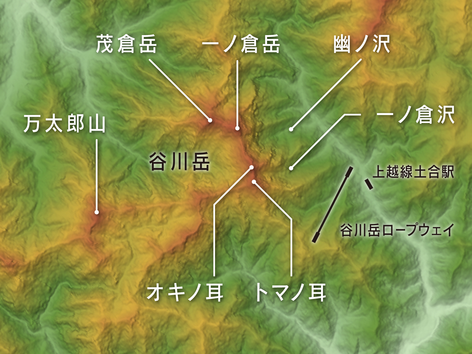 Relief map of Mount Tanigawadake, Gunma Prefecture & Niigata Prefecture, Prefecture, Honshu, Japan. Data from "SRTM-1 (30m Mesh) Ver.3 2014".